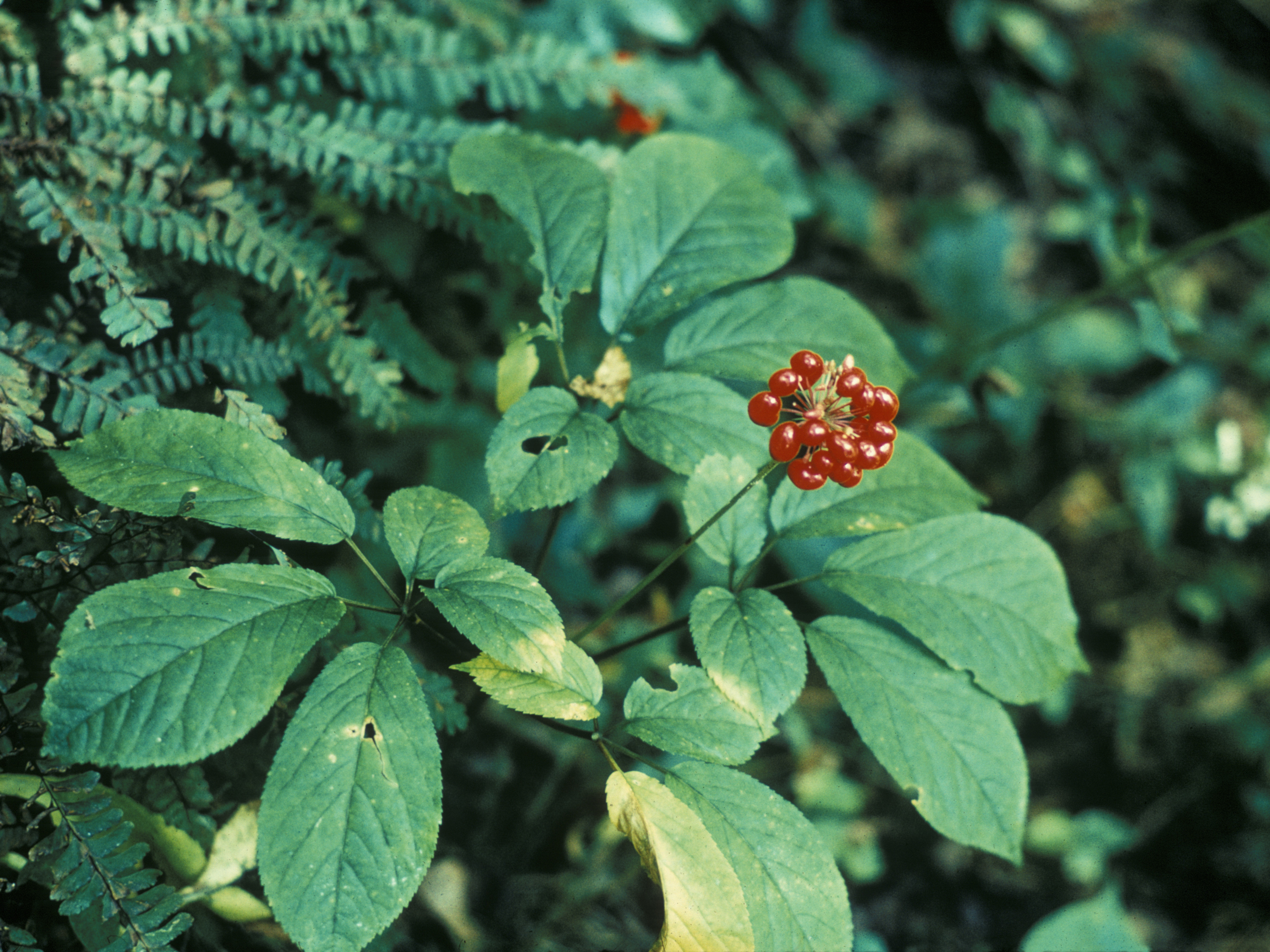 Panax quinquefolius American ginseng